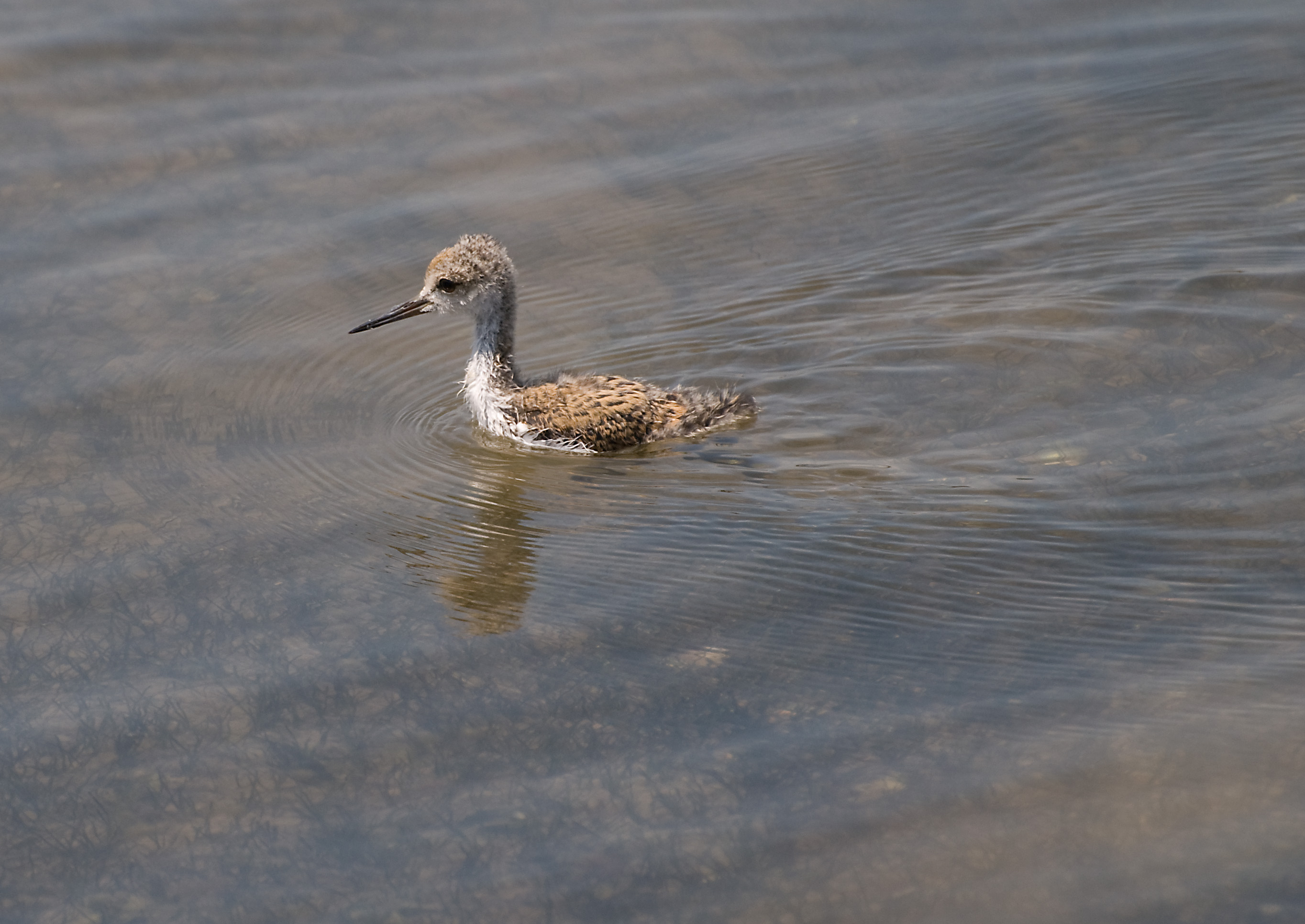 Common Stilt (Himantopus himantopus), fledgling, Laguna di Venezia, Italy